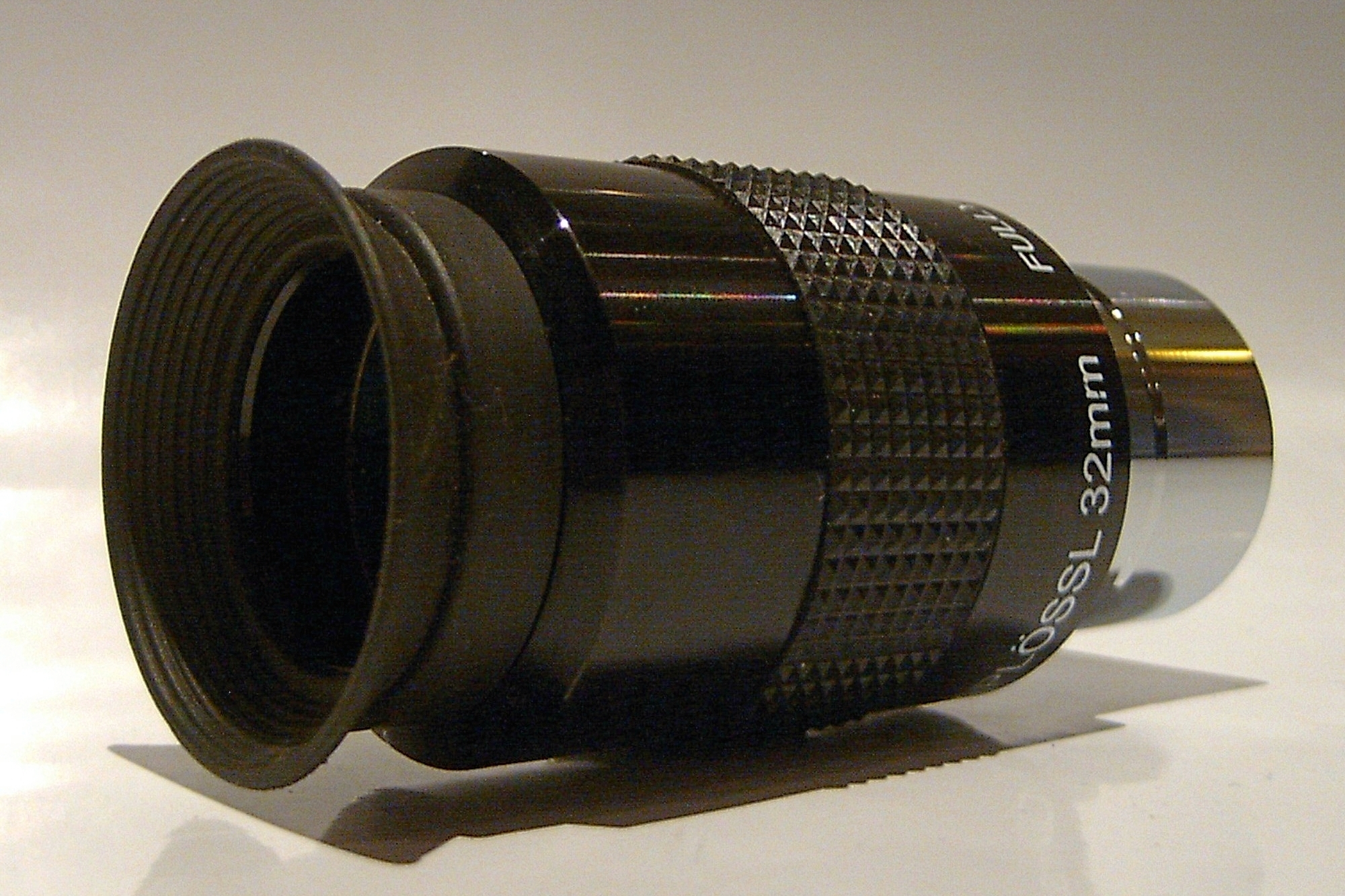 Plössl Okular